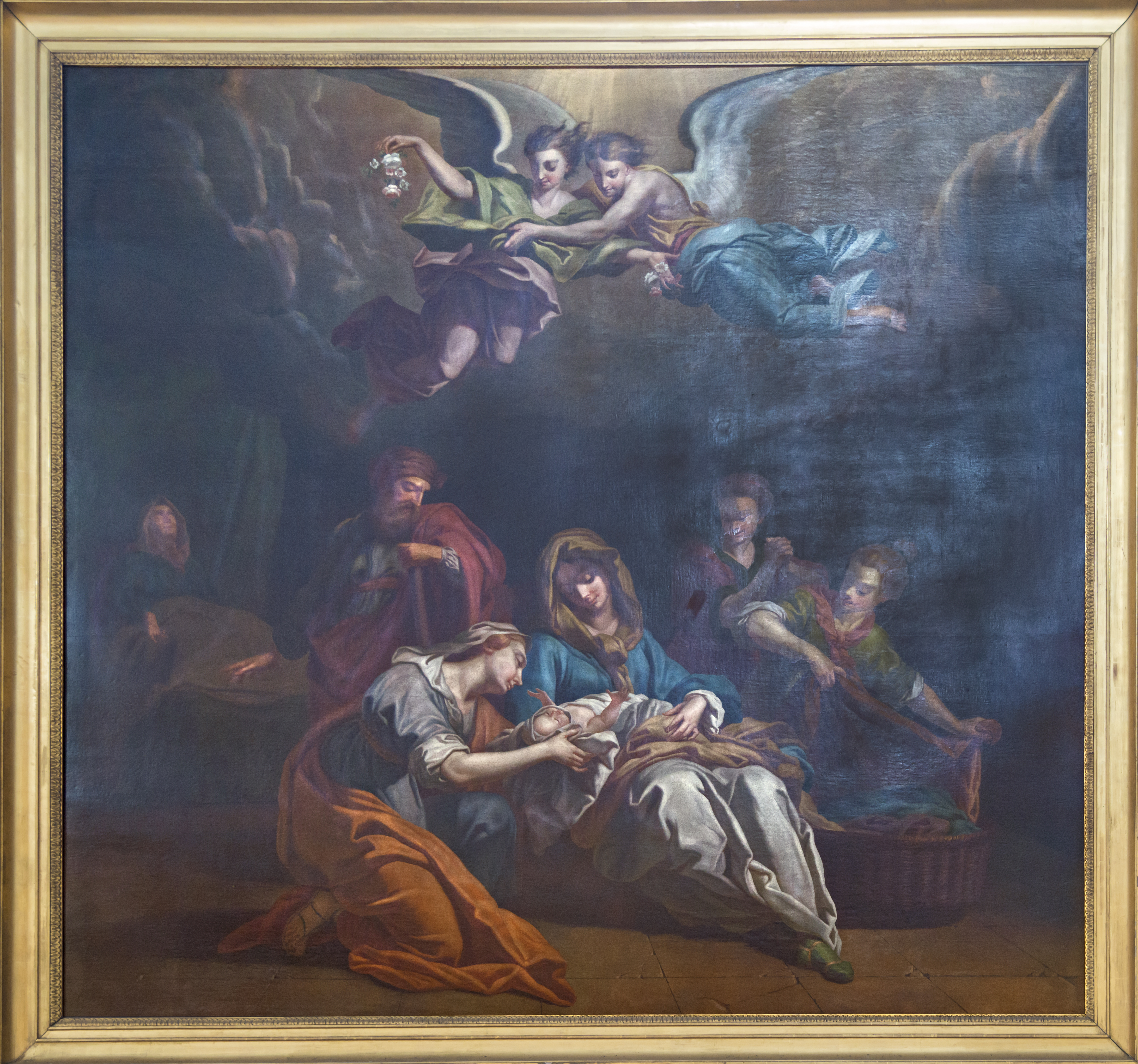 Carmelite chapel - "Nativity of the Virgin" by Felix Saurine copy from of picture by Jean-Baptiste Despax of the church of Dalbade in Toulouse.